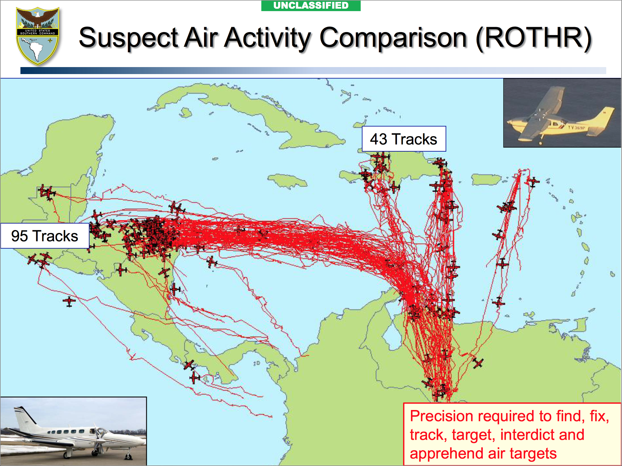 2010 map (see showing same map dated 2010 at 9 min mark) of suspect air activity presented by USSOUTHCOM in 2011.